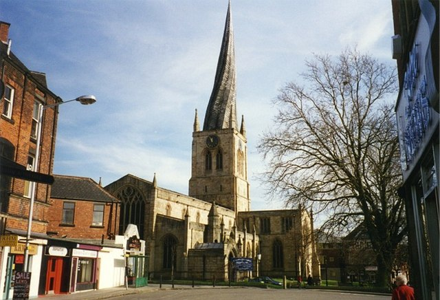 Crooked spire of Chesterfield Parish Church